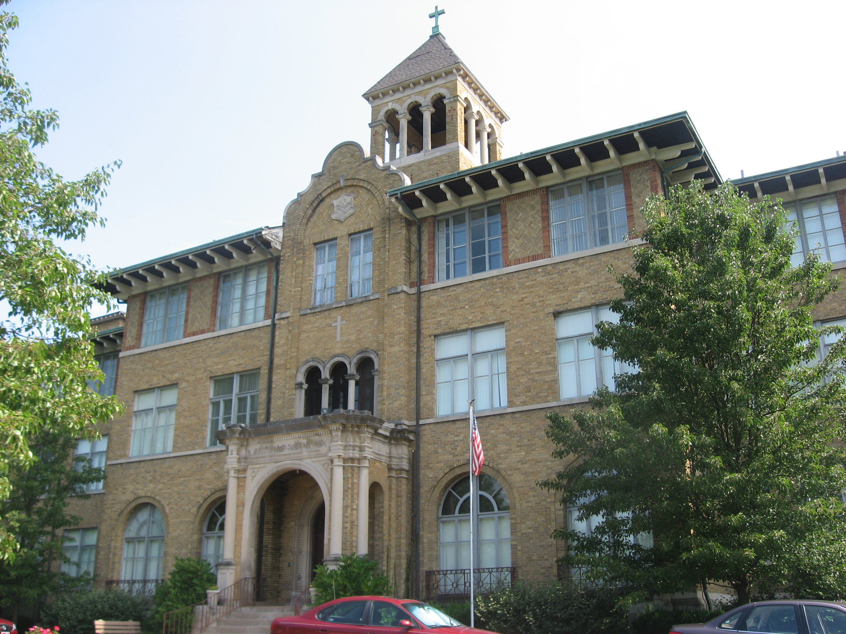 Front of the main building at the former St. Francis Seminary (now a retirement home), located at 10290 Mill Road in Springfield Township, Hamilton County, Ohio, United States. Built in 1923, it is listed on the National Register of Historic Places.